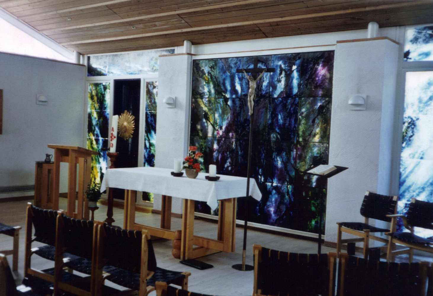 Catholic church Mariukirkja, Tórshavn, Faroe Islands